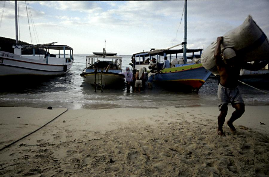 Boatsmen at the harbour of padang bai - bali